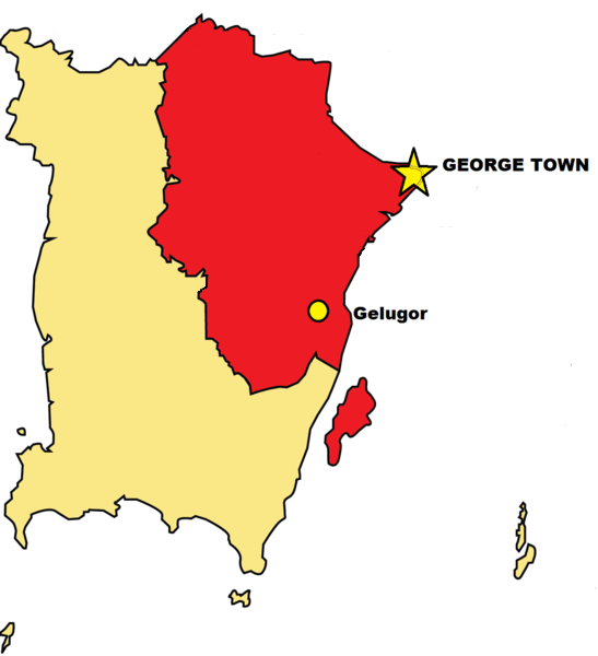 Location of Gelugor, George Town, Penang